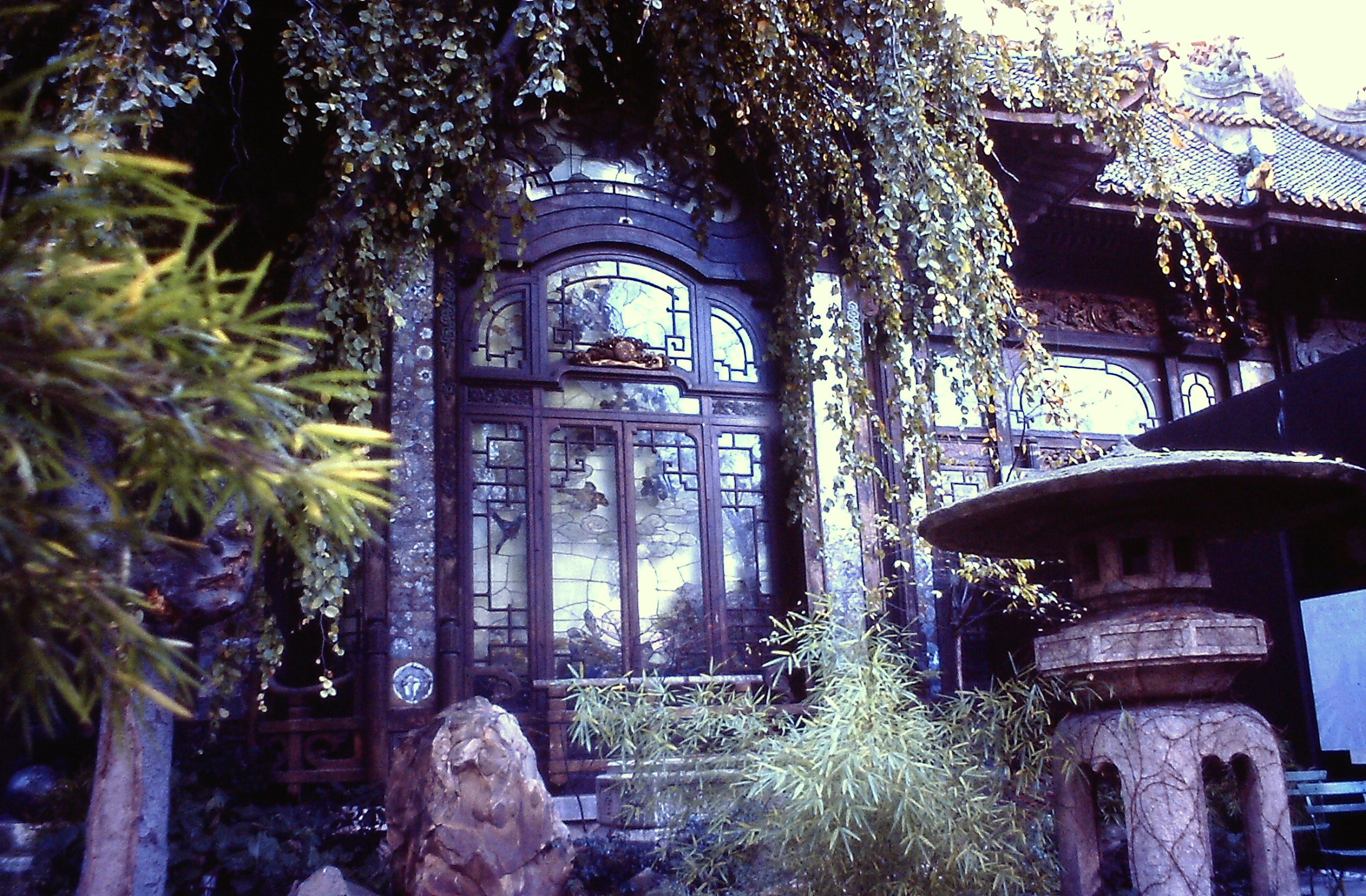 La Pagode Theatre